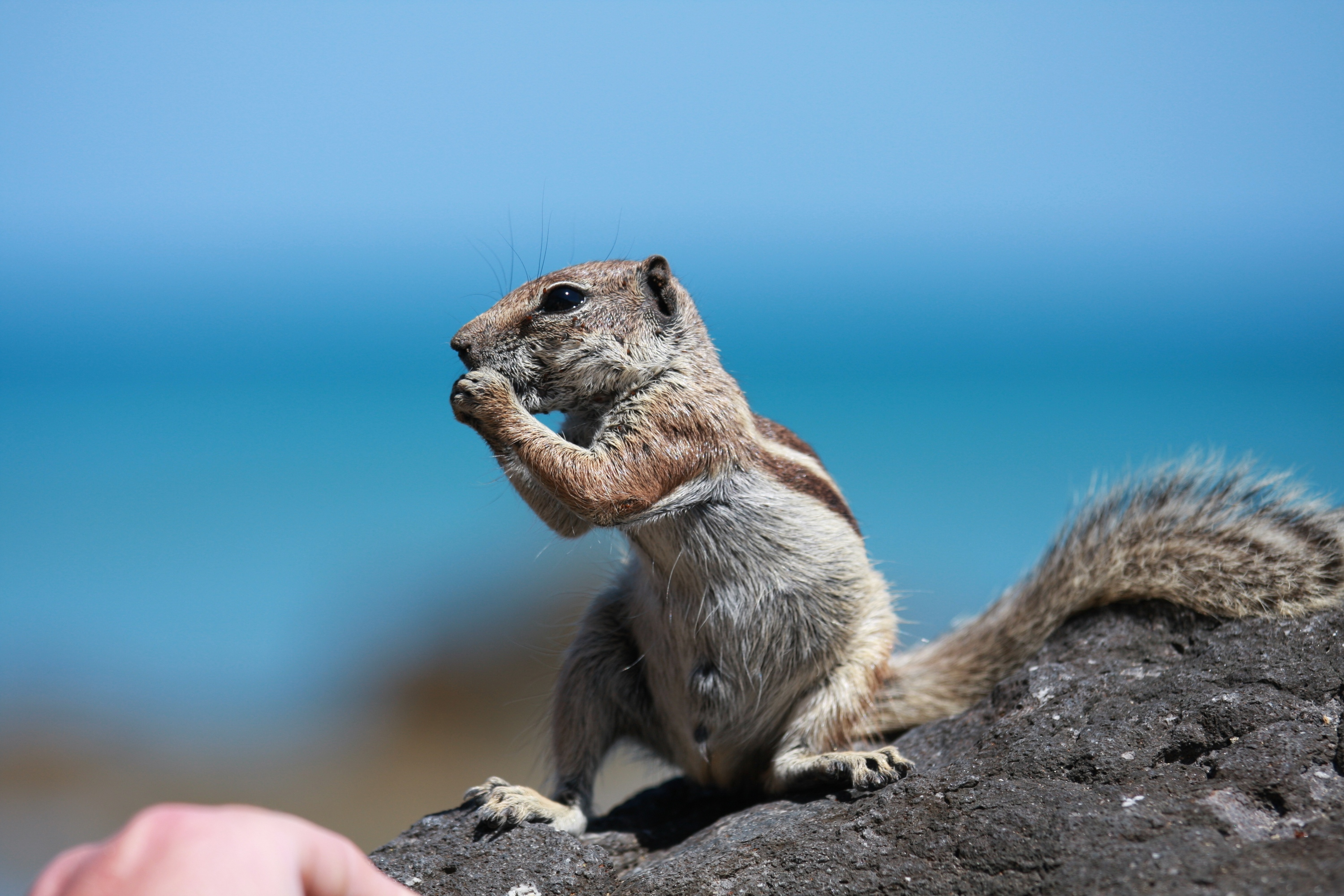 A Barbary Ground Squirrel on Fuerteventura